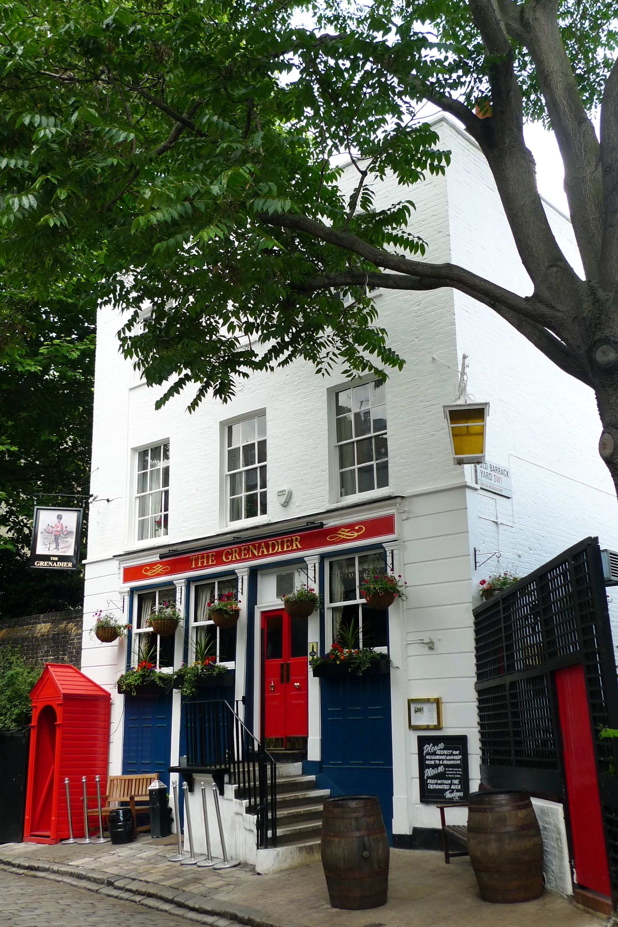 Attractive mews pub in a posh area. Address: 18 Wilton Row (formerly Wilton Crescent Mews). Former Name(s): The Grenadier Arms. Owner: Spirit Pub Company [Taylor Walker] (website); Punch Taverns [Spirit Group] (former); Watney Combe Reid (former). Links: Randomness Guide to London Fancyapint Beer in the Evening Pubs History (history)